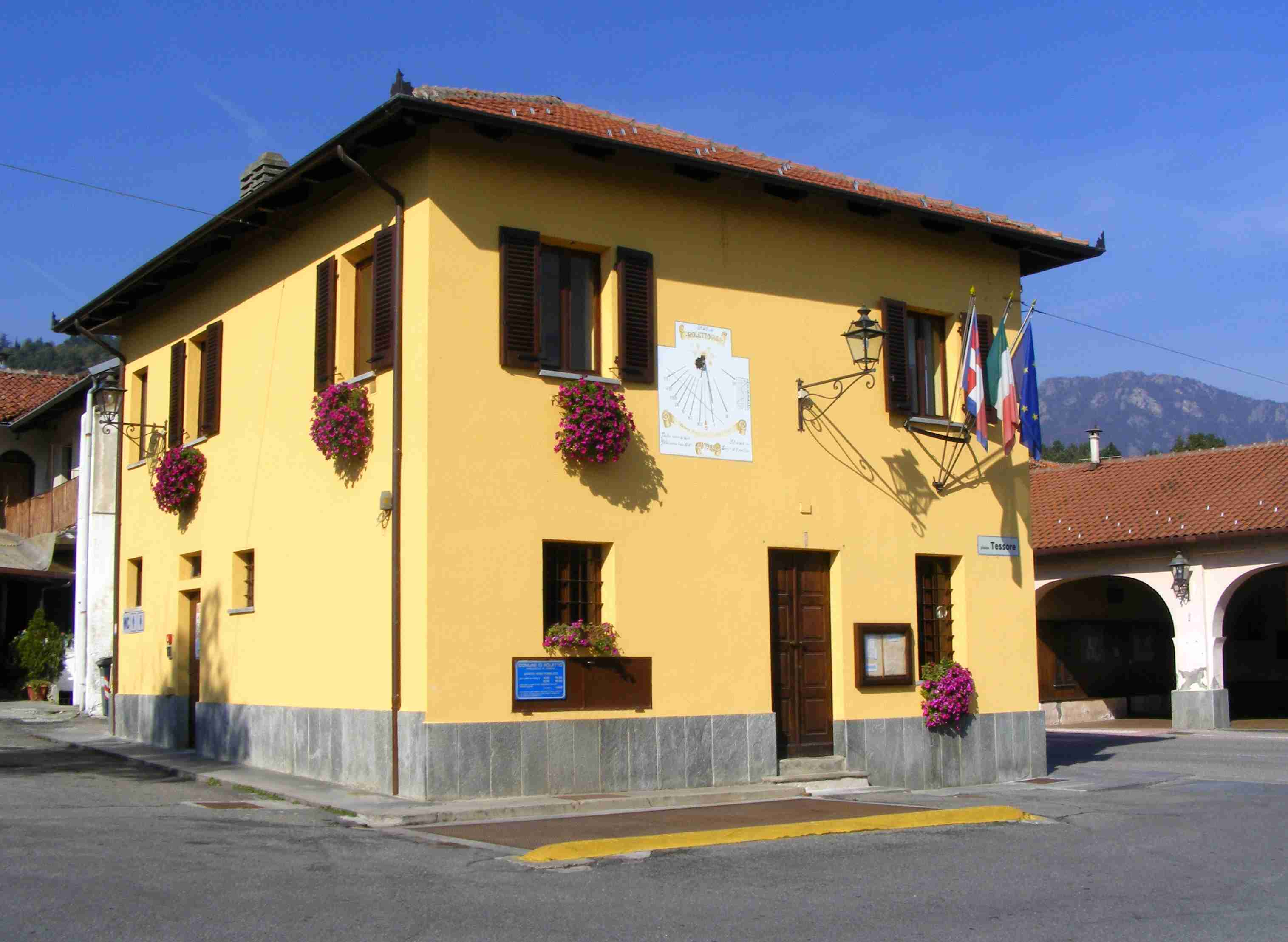 Roletto (TO, Italy): town hall